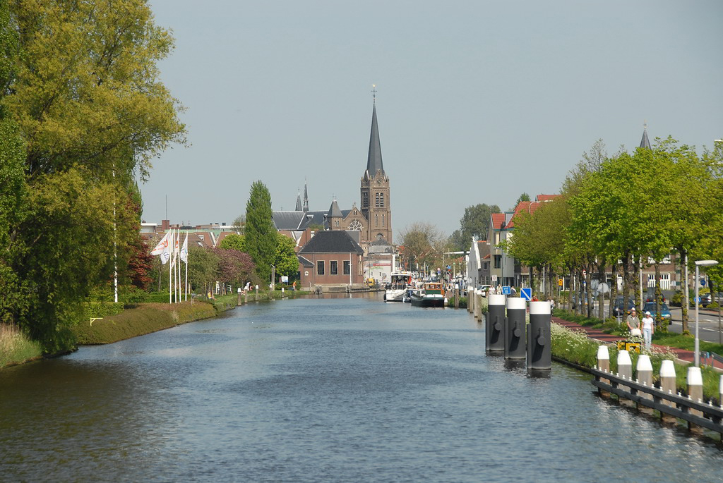 Along The Vliet in Leidschendam. Architect of the church: E.J. (Evert) Margry (1841-1891).